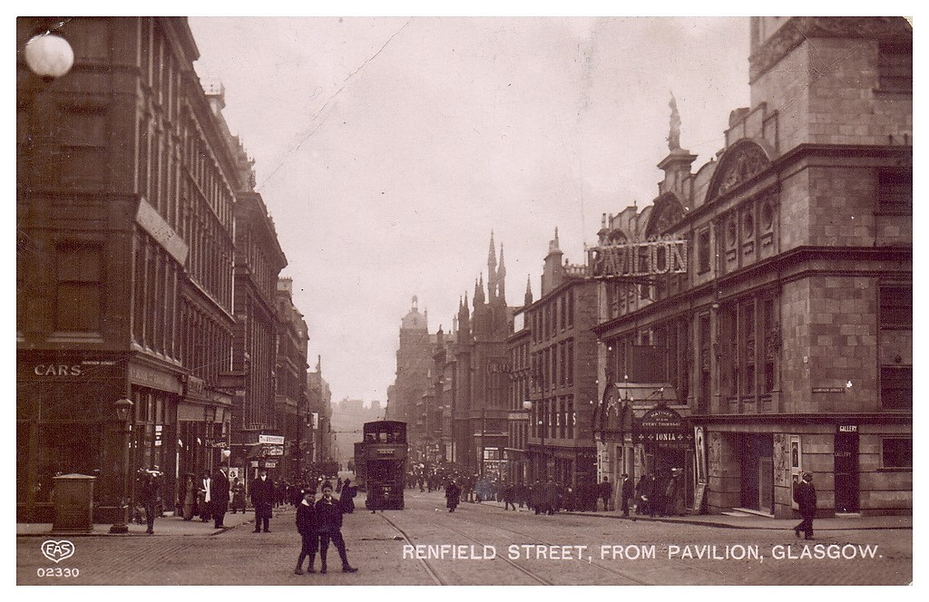 Renfield Street, Glasgow at Renfrew Street with the Pavilion Theatre on right of view